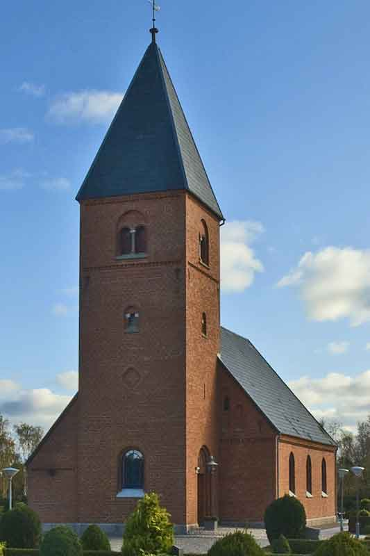 Aalbæk Kirke, church in the northern part of Denmark